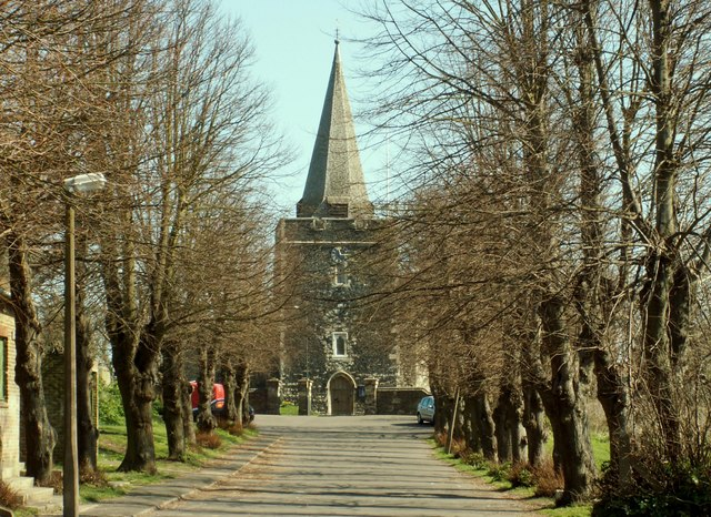 All Saints: the parish church of Frindsbury This church dates back to the Norman period but was later changed in the 19th century when a Victorian restoration took place and a north aisle was added. Fine views across the river Medway and the towns of Rochester and Chatham can be seen from the churchyard.